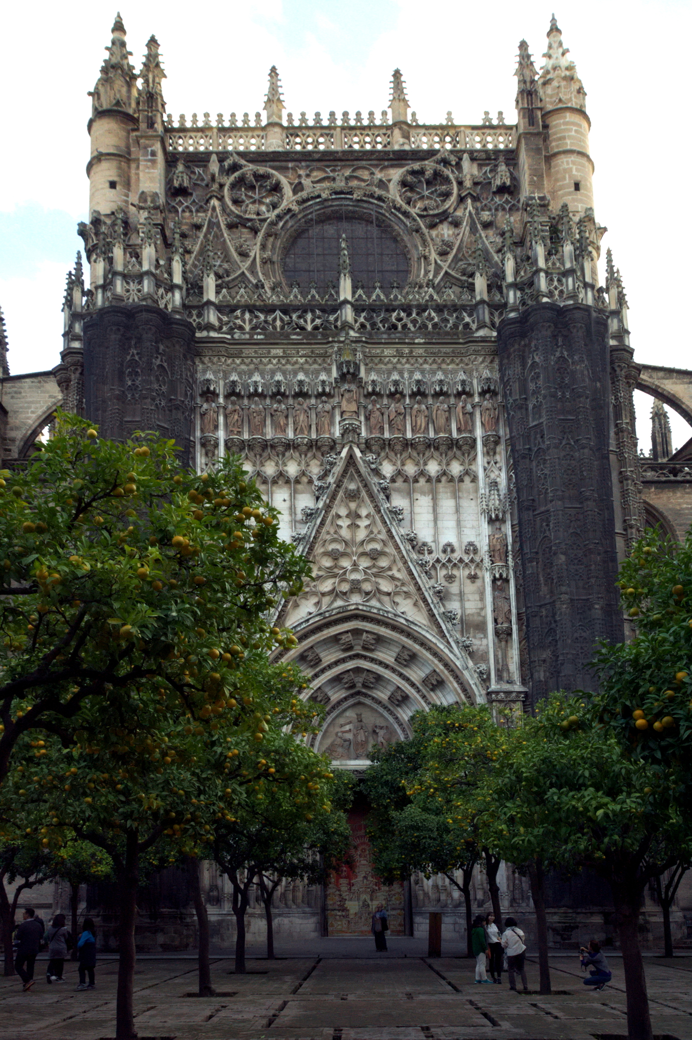 Sevilla Cathedral - Door of Conception